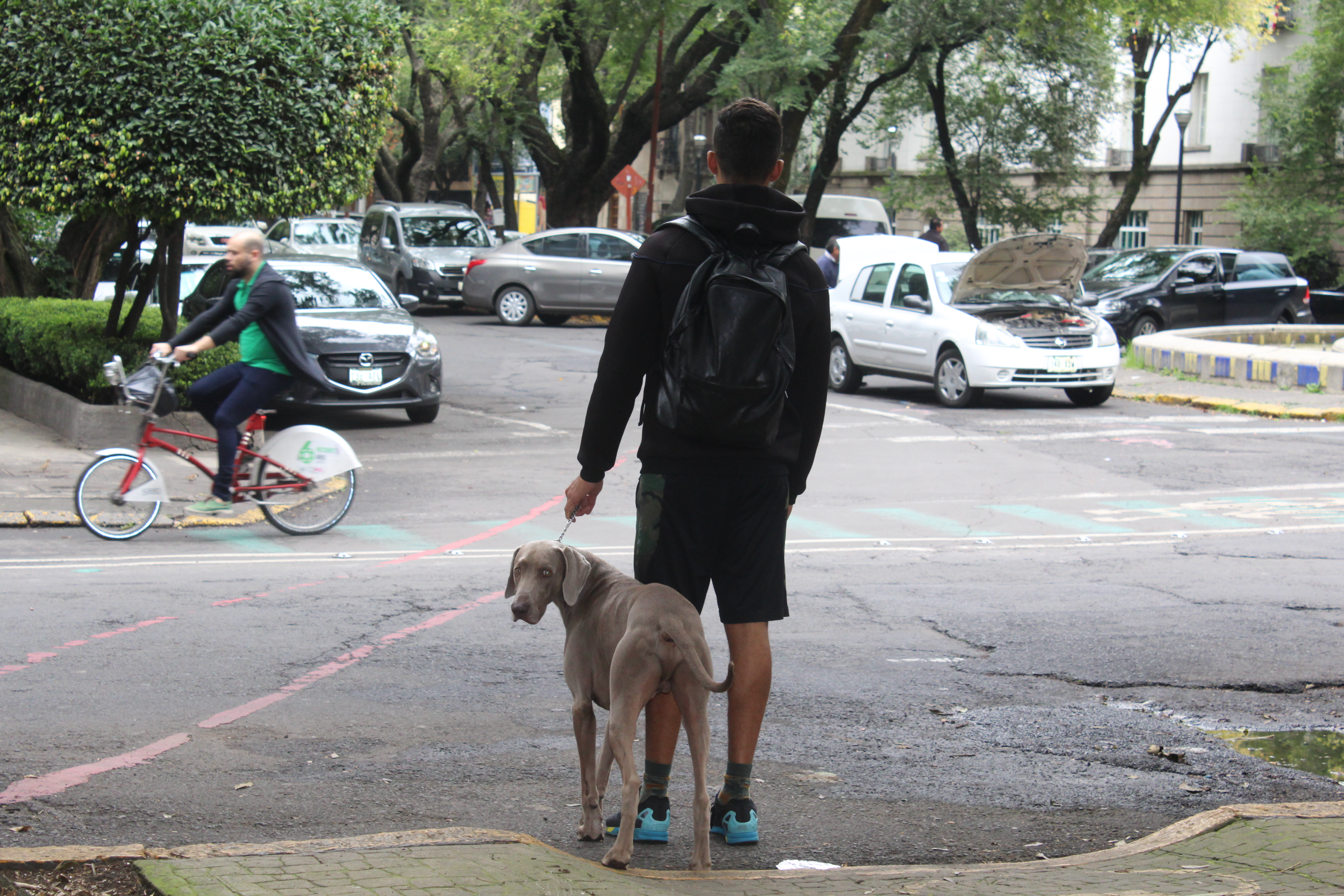 Man facing the street, dog facing the camera. In the background is the street with parked cars and trees. On the left side there is a cyclist.